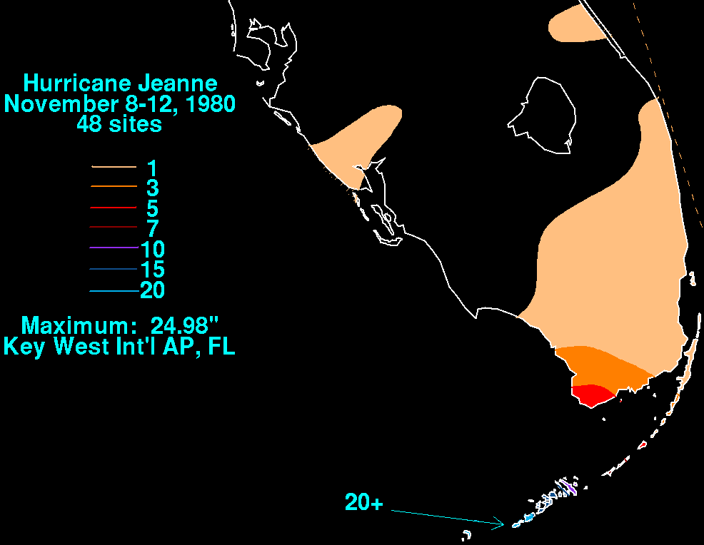 Rainfall produced by Hurricane Jeanne during November 1980.